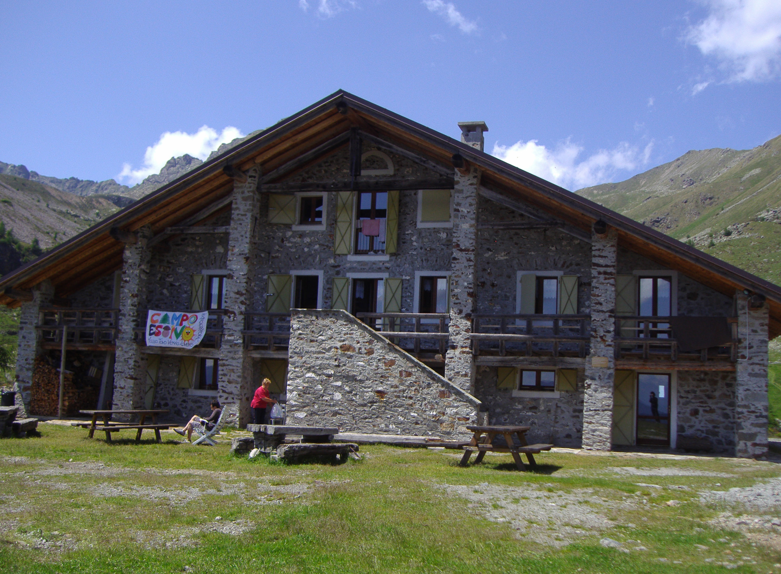 Rifugio Schiazzera (Italy)